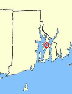 Hog Island, the fifth-largest island in Narragansett Bay. Edited from Image:Aquidneck Island map.gif, subject to GDFL license.